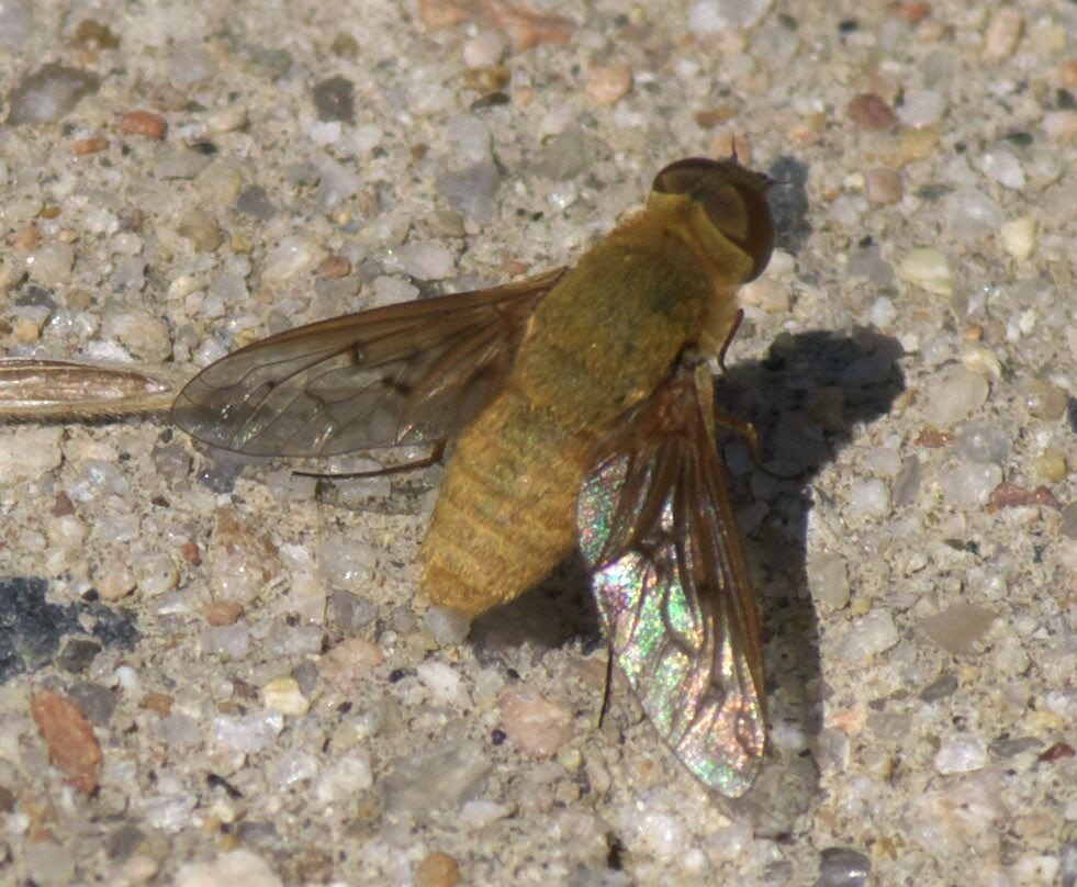 Chrysanthrax edititius, Family: Bee Flies, ID Confidence: 97